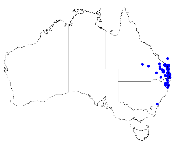 Boronia rosmarinifolia downloaded from Australasian Virtual Herbarium 10 April 2019 using This download included all the environmental overlay fields and ALA's data checking fields including "cultivated / escapee", "outside expert range for species", "latitude is negated", "coordinates are transposed", "taxon misidentified", "habitat incorrect for species", and "suspected outlier" (711 fields). Deleting occurrences for which any of the above were true, 46 specimens with coordinates were deleted.